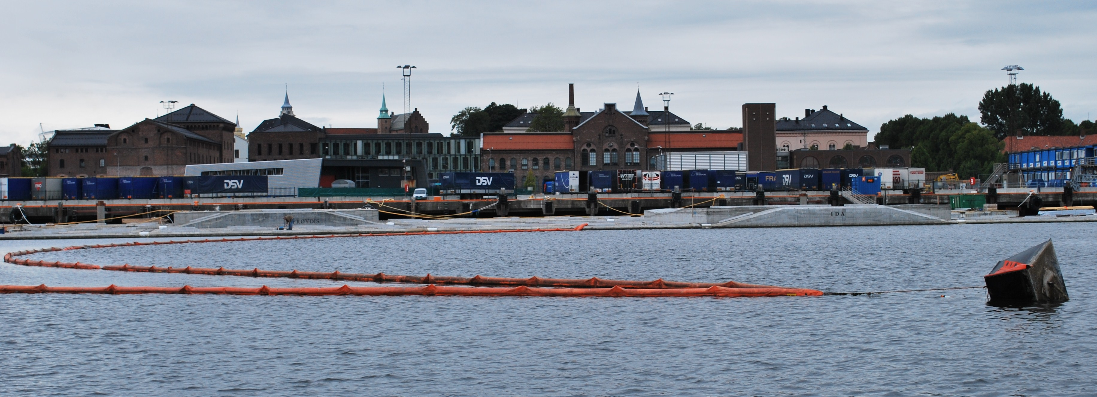 Bjørvika tunnel, E 18, Oslo - concrete elements lying in Bjørvika, named Ida and Frøydis after two employees in the engineering company